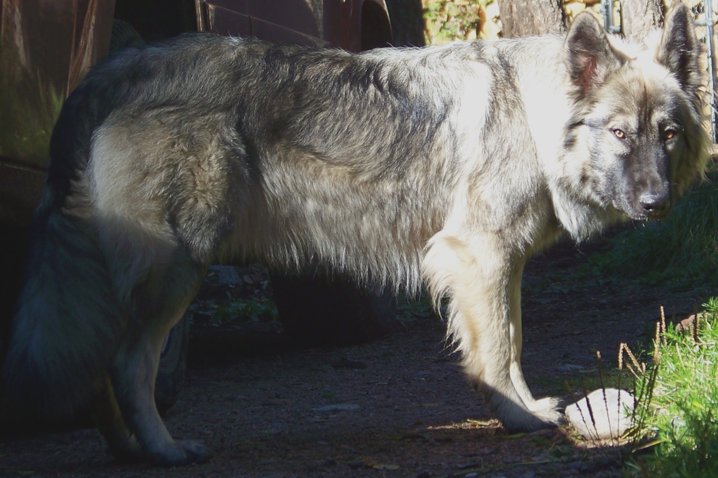 This is a picture of a 10 month old American Alsatian.